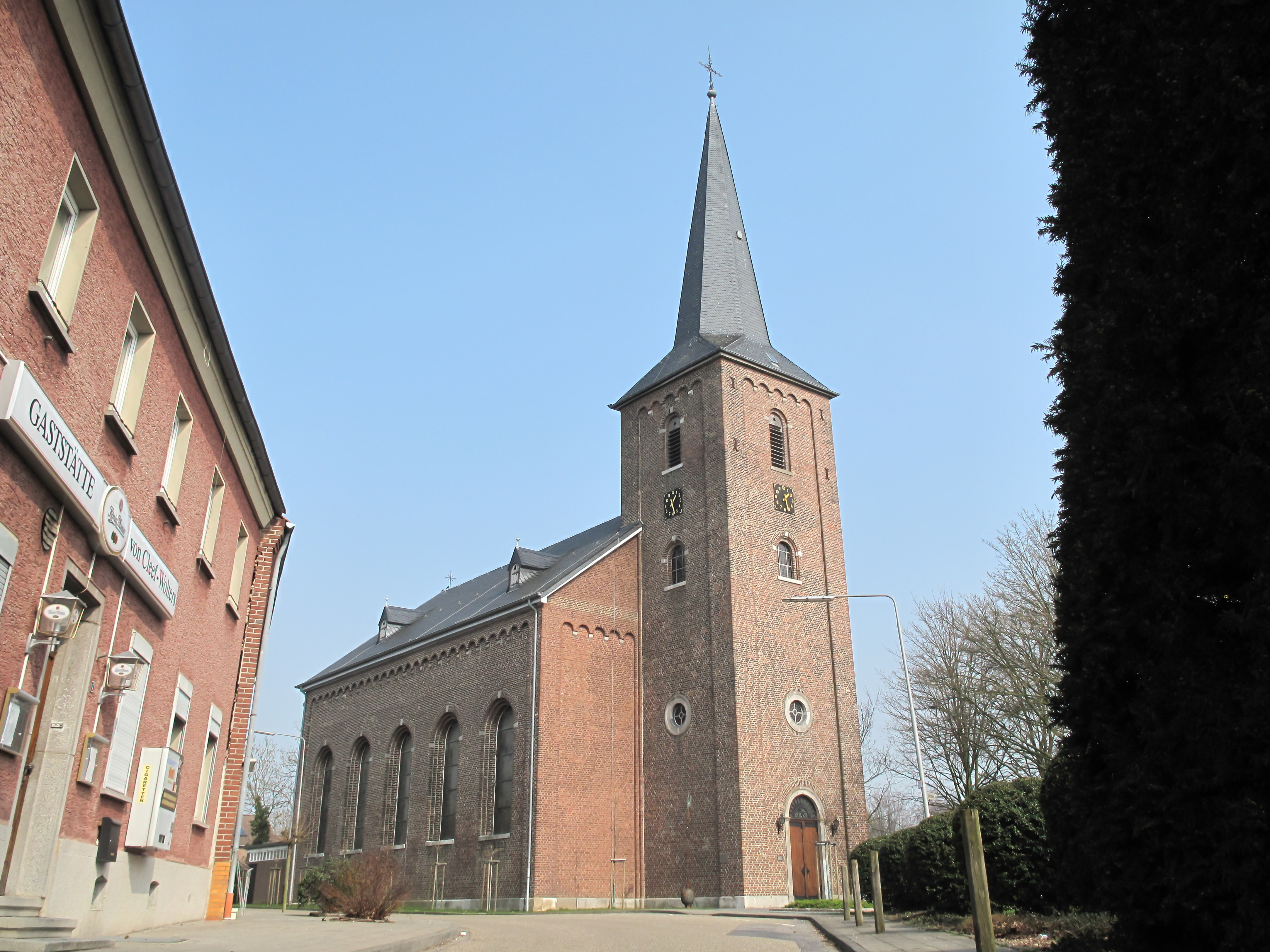 Saeffelen, church: Pfarrkirche Sankt Lucia